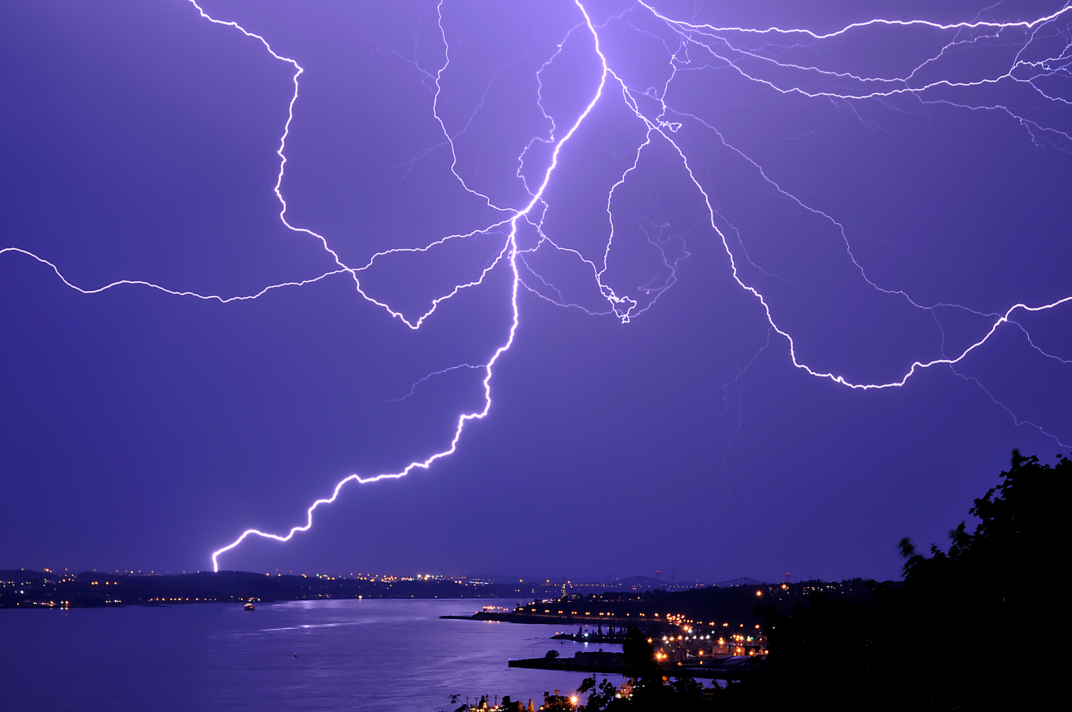 Lightning over St-Laurent River on a stormy night in Quebec.